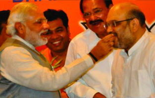 Shri Modi congratulates Amit Shah as he takes charge of BJP